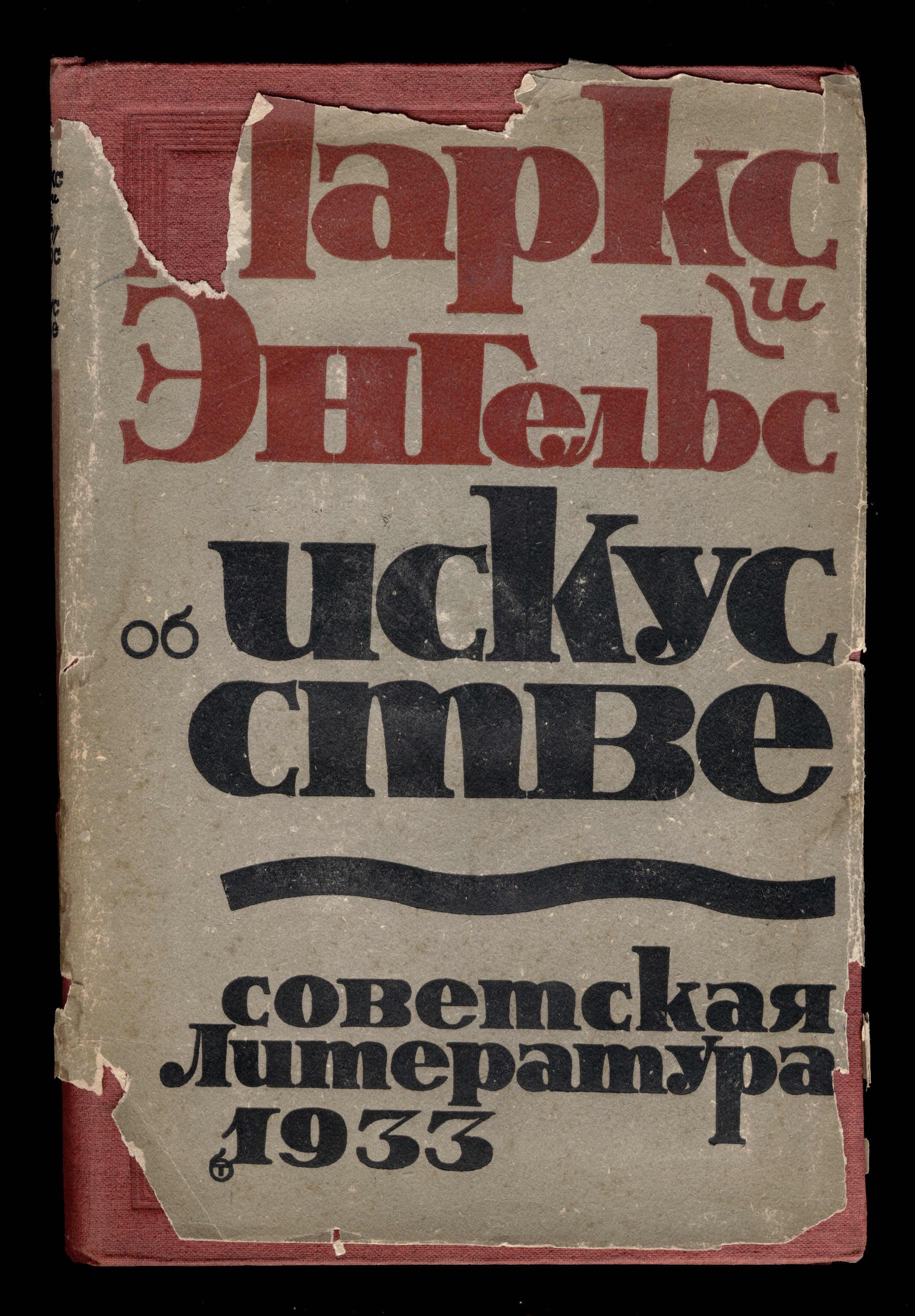 Lifshitz-Marx-Art-1933